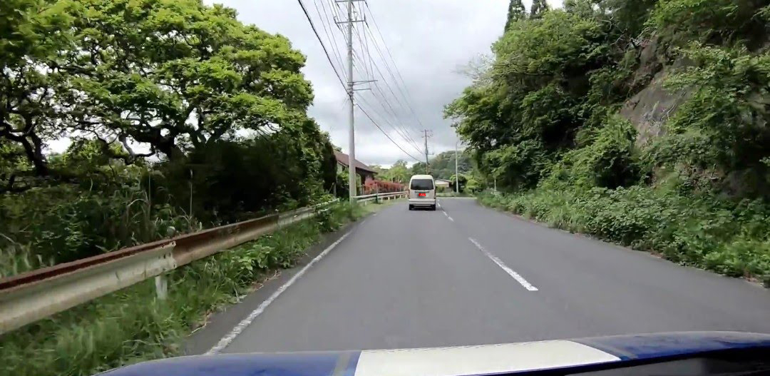 Hillside road of Jhapa where elevation starts.